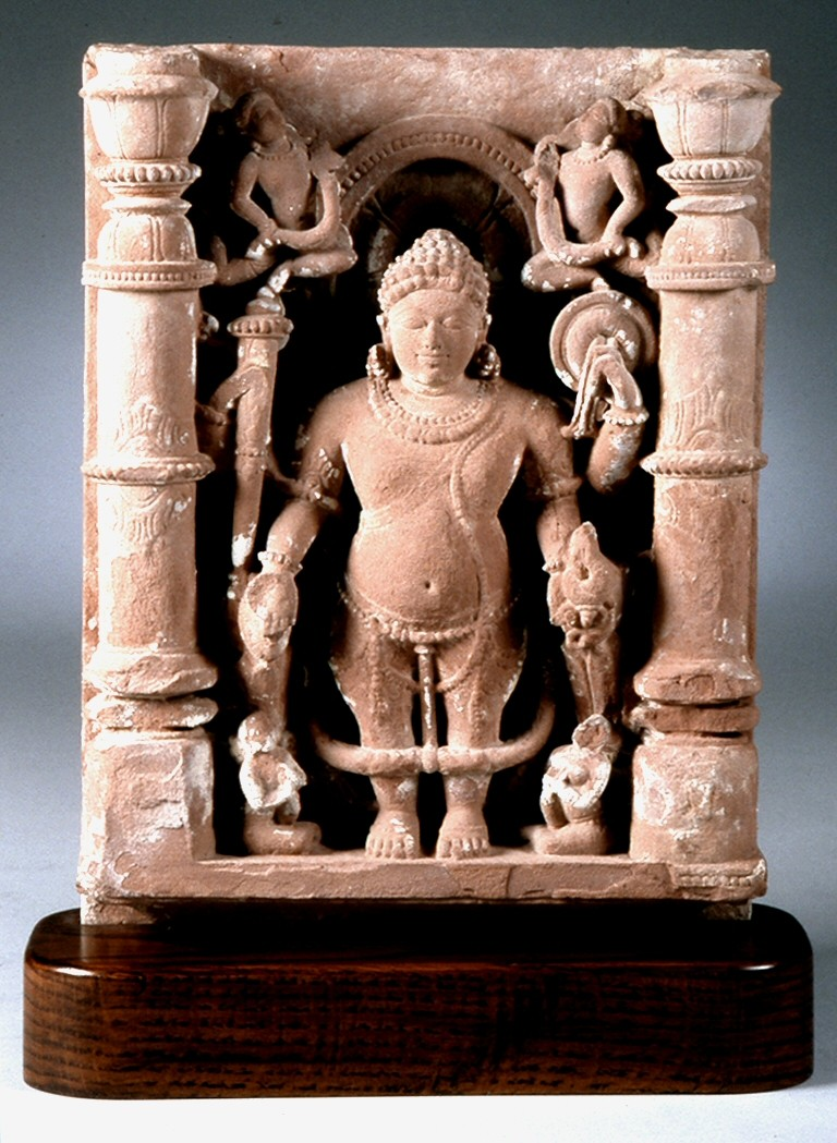 From the source (creative commons license), "Standing tall despite his diminutive proportions, this dwarf, Vamana, is an incarnation of the Hindu god Vishnu. He holds Vishnu’s attributes—the club and discus in his upper hands and the conch shell in his lower left hand—and makes the gesture of giving. As preserver of cosmic order, Vishnu descends to earth to restore balance whenever the world is threatened by evil. When the king Bali was becoming too powerful, Vishnu came to earth as a dwarf and, dressed as a pious student of Hindu knowledge, asked the king for the amount of land he could cover in three steps. Thinking he had nothing to lose, the king granted the dwarf’s request, whereupon Vishnu transformed himself into the giant Trivikrama, covering the entire earth with his first step, the heavens with his second step, and with his third step pushing Bali into the netherworld."